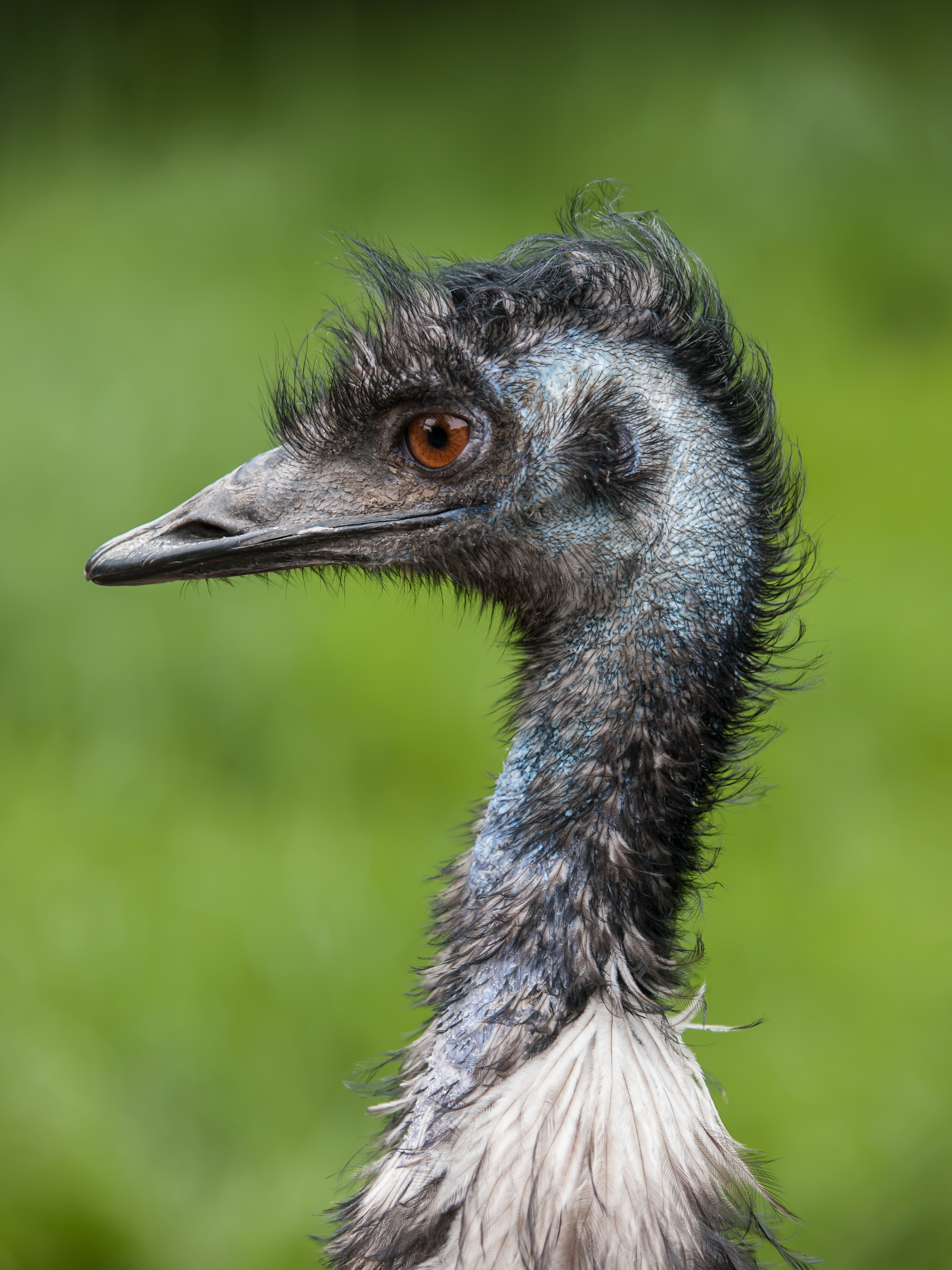 Emu head and upper neck, Battersea Park Children's Zoo in South London, England.